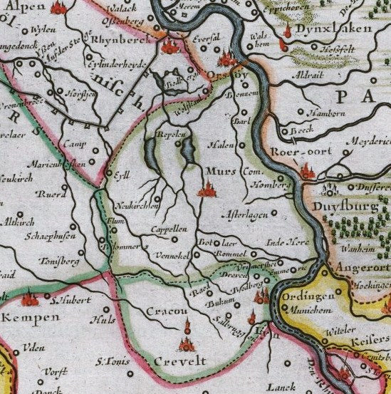 The county of Moers ca. 1635